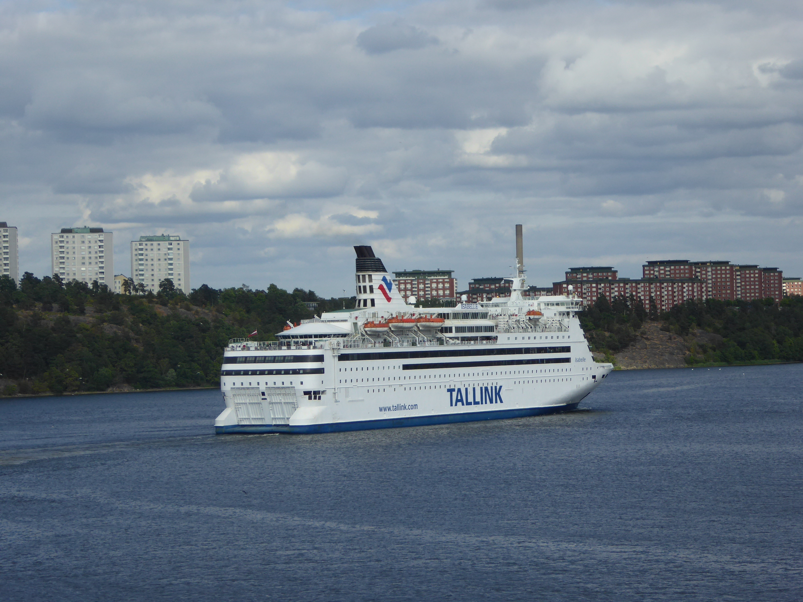 The cruise ship M/S Isabelle leaving the Port of Stockholm bound for Riga.